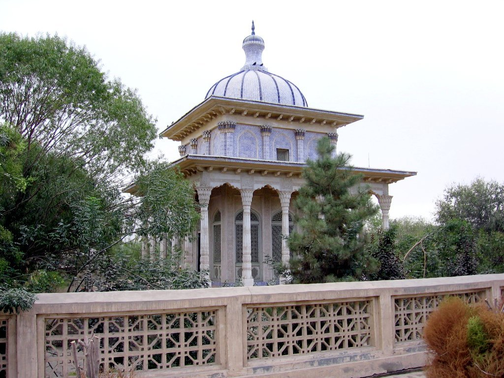 Yarkand (Sache) is an oasis city in the Xinjiang Uygur Autonomous Region of the People's Republic of China. Mausoleum of Aman Isa Khan.